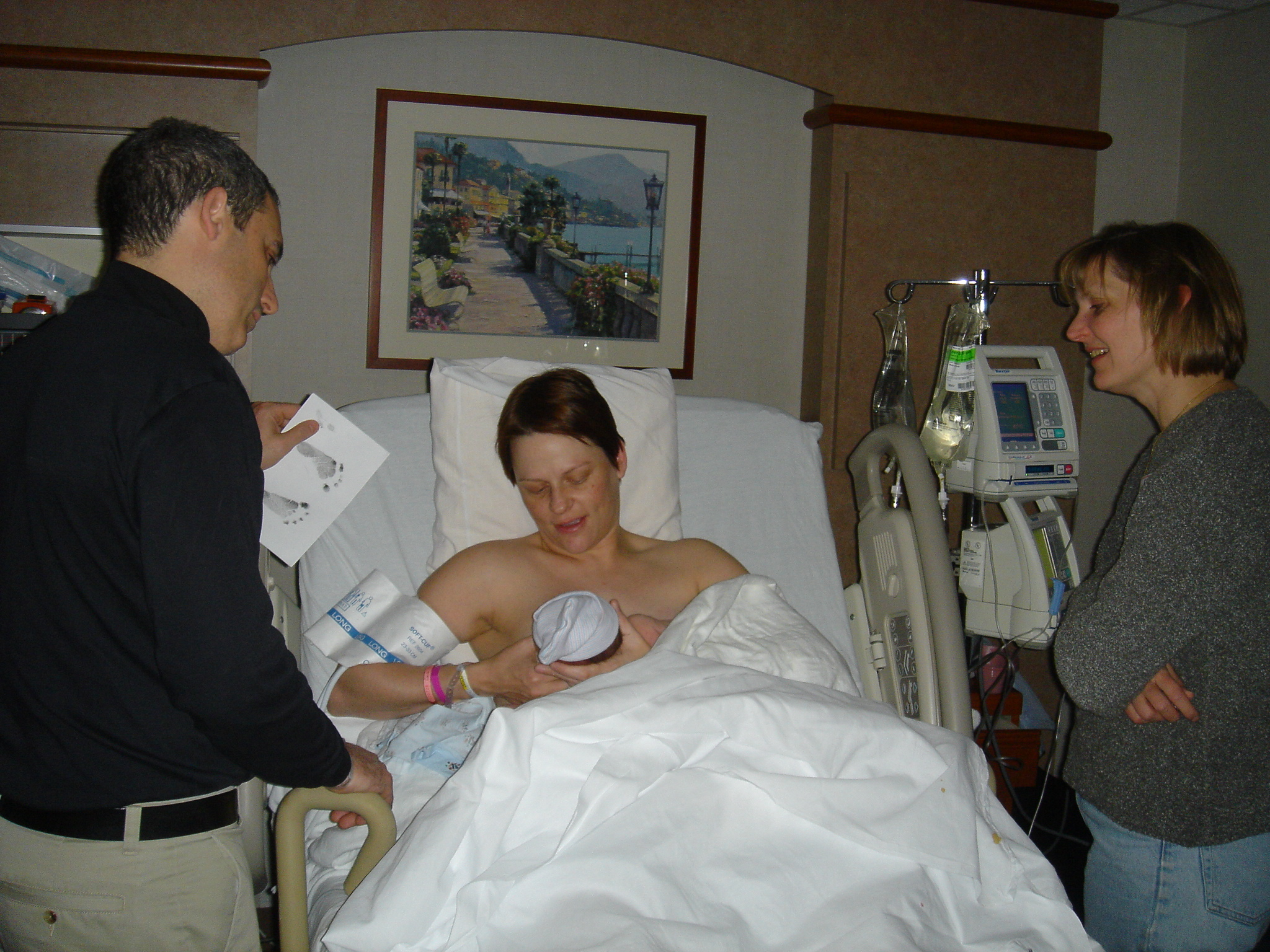 Just a few minutes of feeding but a great bonding. Next is the bath.